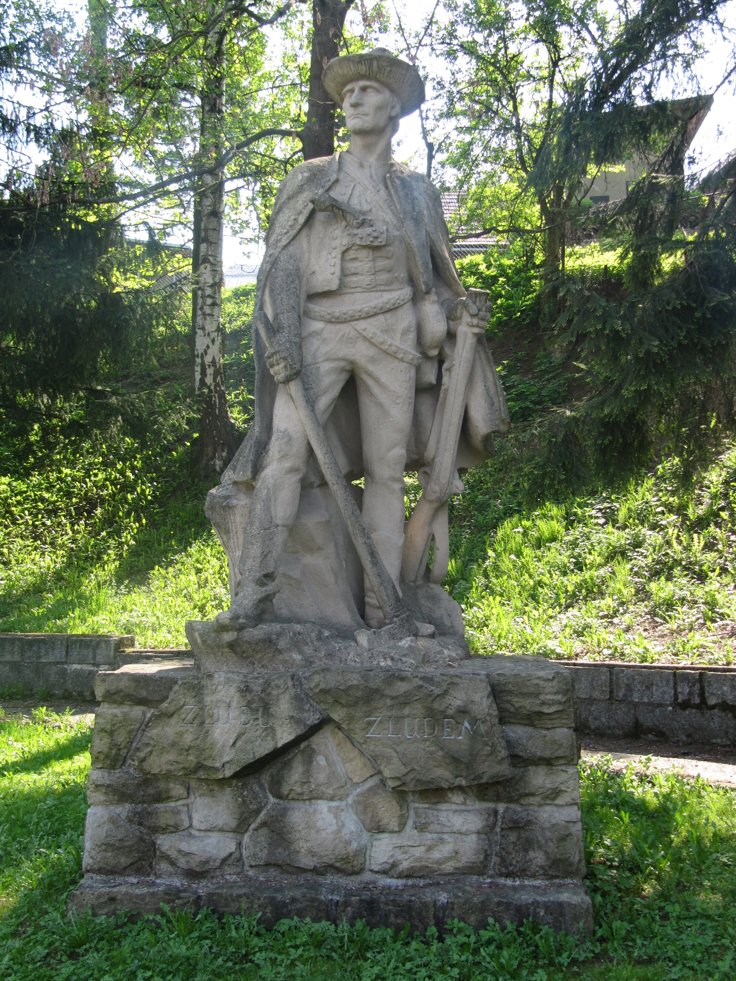 Jasenná in Zlín District, Czech Republic. Monument to early modern era border guards.